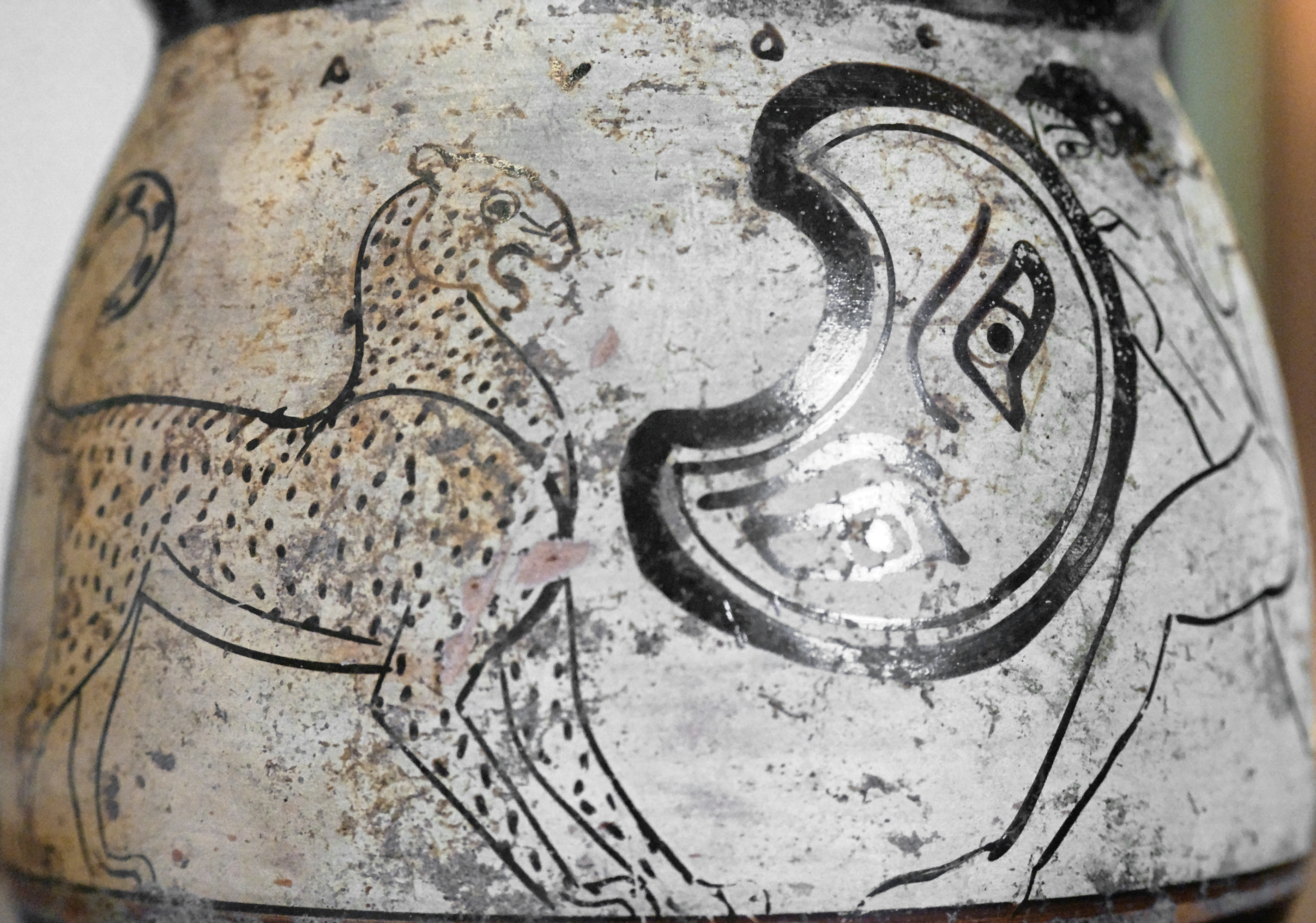 Peltast fighting a panther; kalos inscription. Side A from an Attic white-ground mug, early 5th century BC.